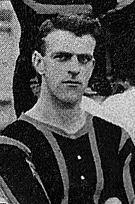 Dave Ewing while with Brentford FC 1908/09